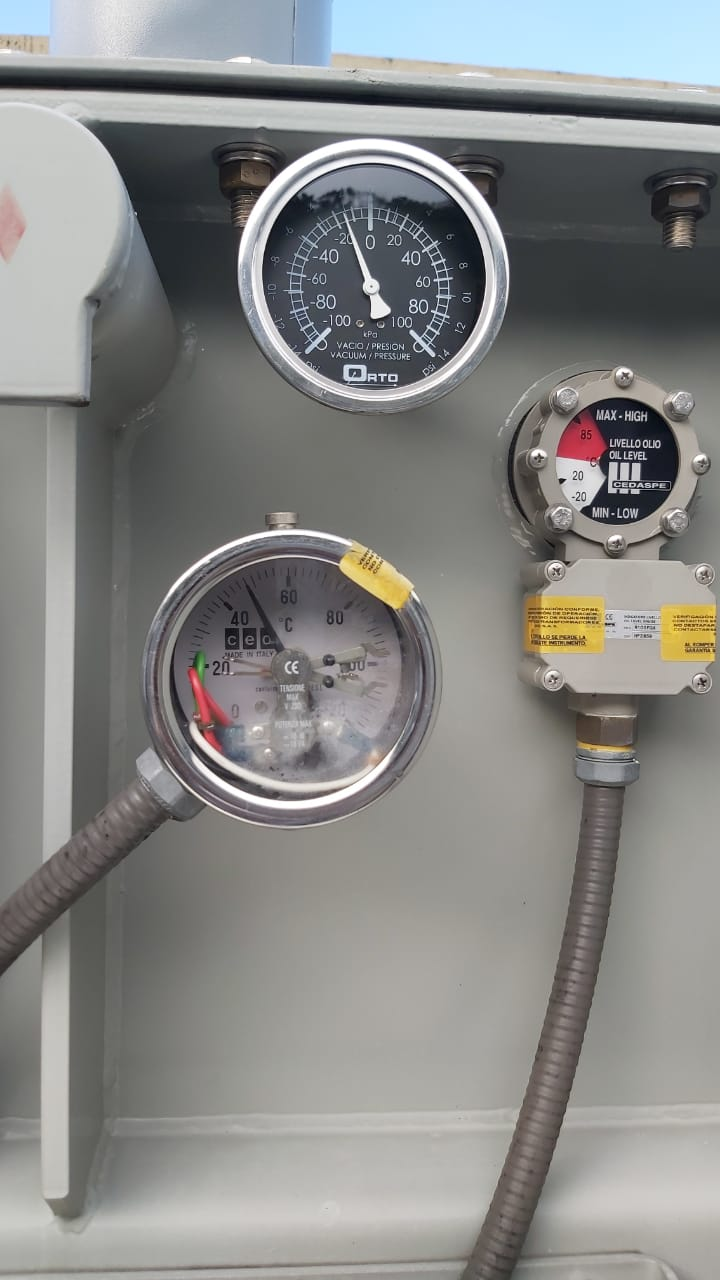 Pressure-vacuum gauge transformer